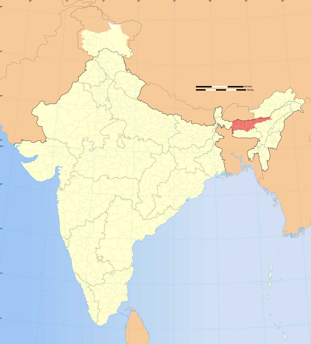 Location of Bodoland Territorial Council